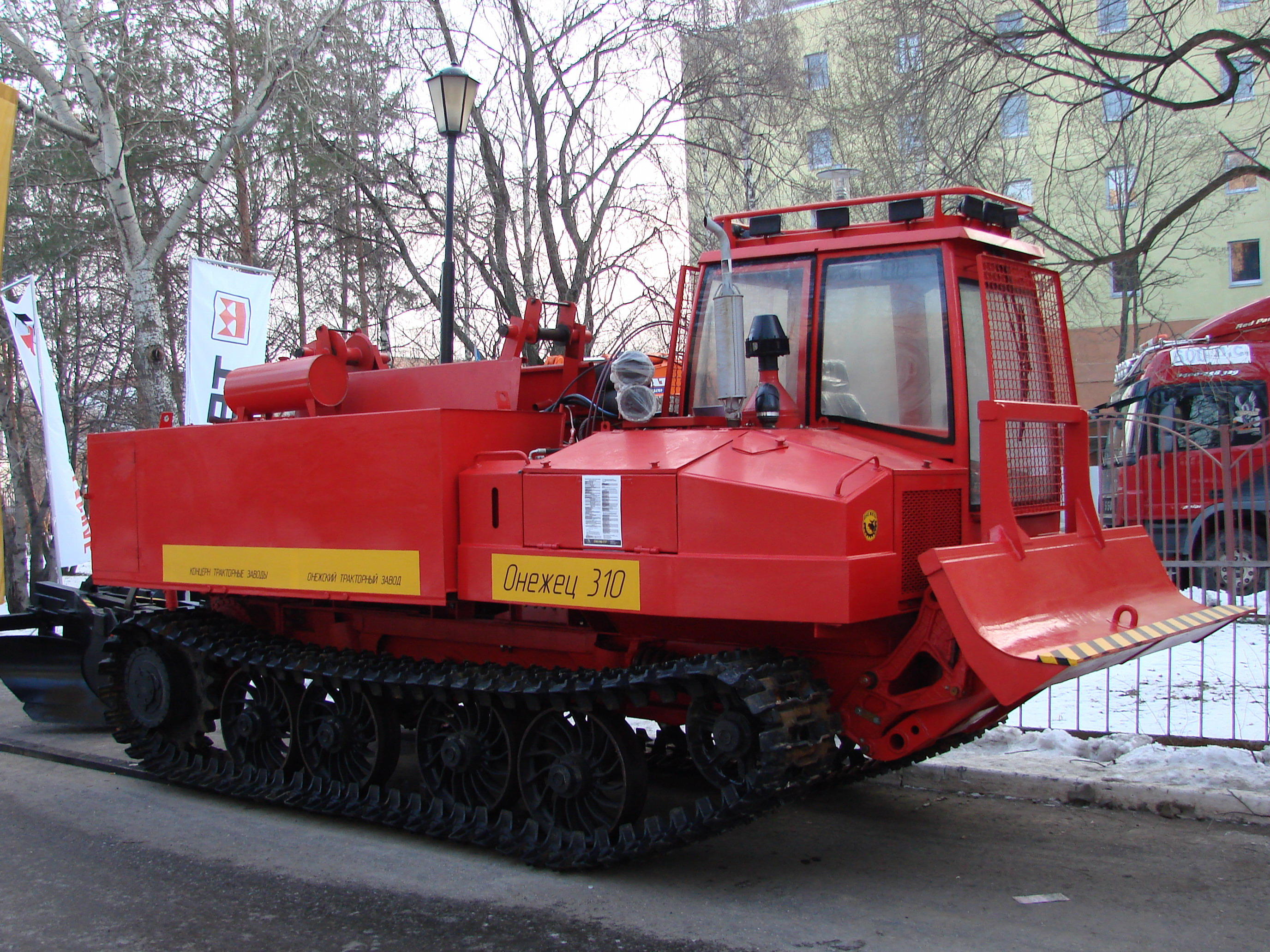 Russia, Vologda, Exhibition-Fair «Russian forest», Firefighting vehicle «Onegec-310»